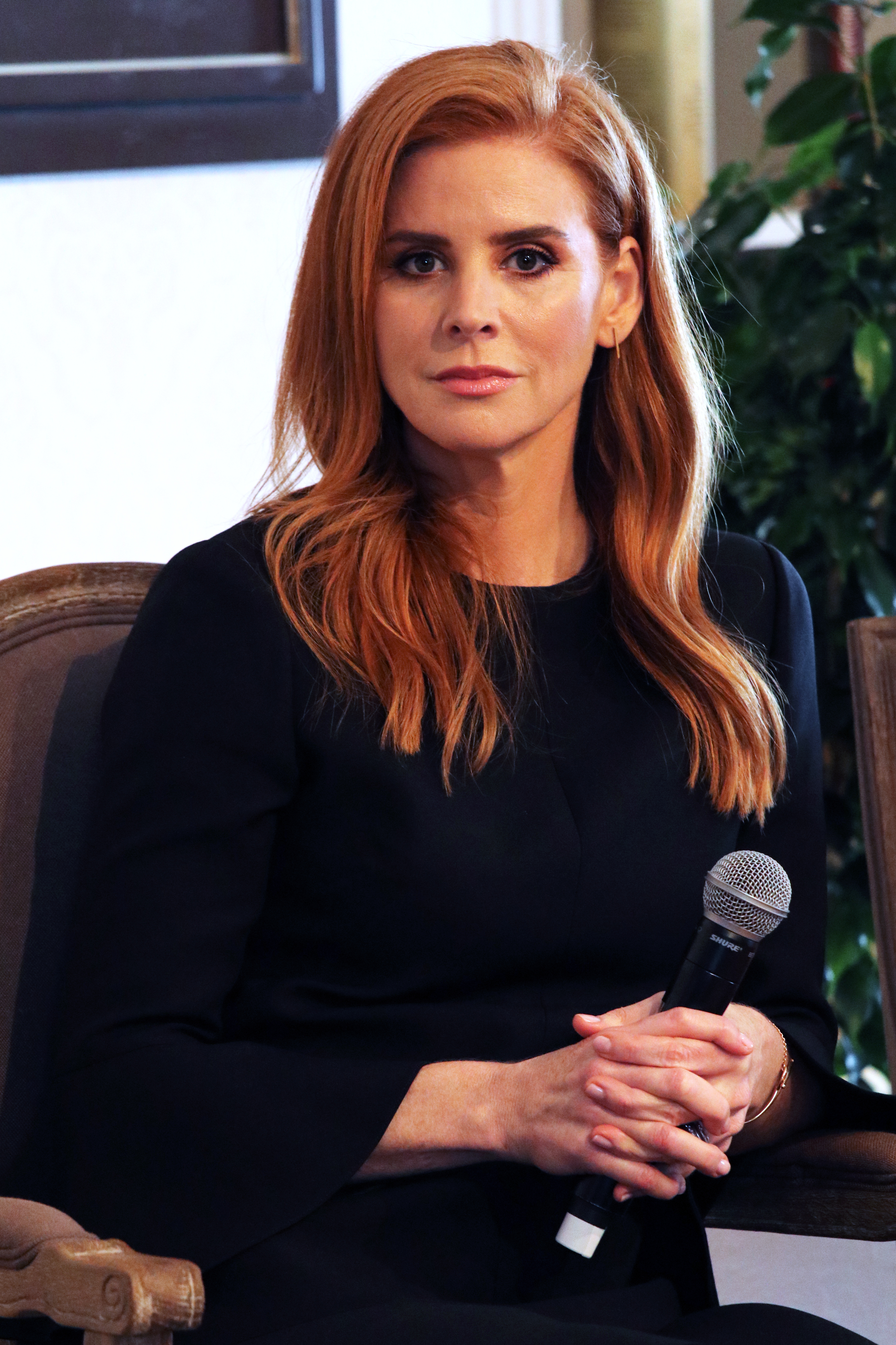 Sarah Rafferty, actress, at the 2018 Global Education and Skills Forum in Dubai